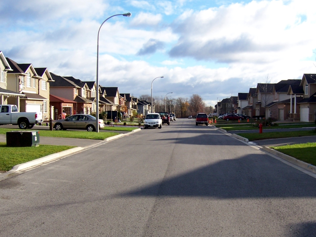 Suburban street in Ancaster, ON.